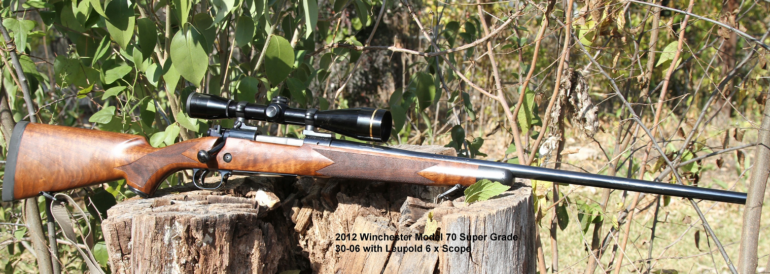 Winchester Model 70 Super Grade 2012 model rifle chambered for .30-06 Springfield with 6x Leupold telescopic sight